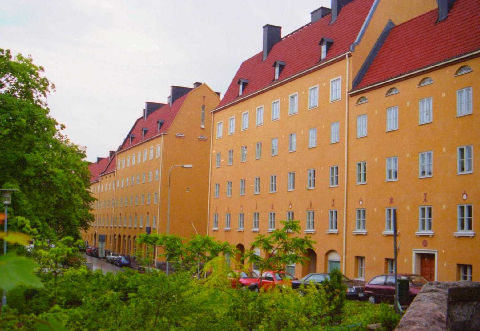 Asunto Oy Hauho on Hauhontie streeti in Vallila, Helsinki, Finland. The apartment buildings were designed by architect Martti Välikangas and completed in 1924–1925.